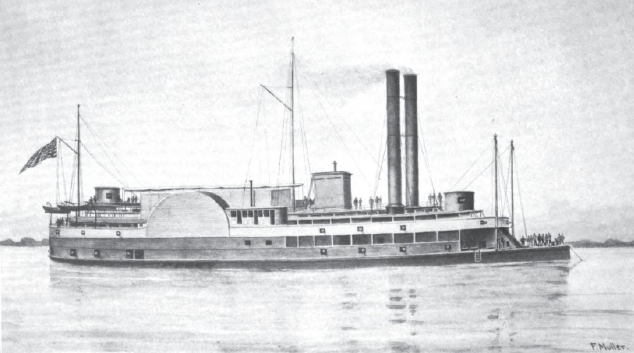 Illustration is from the inside cover of the cited book: From the Google Books Archive: Title Official records of the Union and Confederate Navies in the War of the Rebellion Office memoranda Authors United States. Naval War Records Office, United States. Office of Naval Records and Library Publisher U.S. G.P.O., 1917 Original from Princeton University Digitized Oct 13, 2009